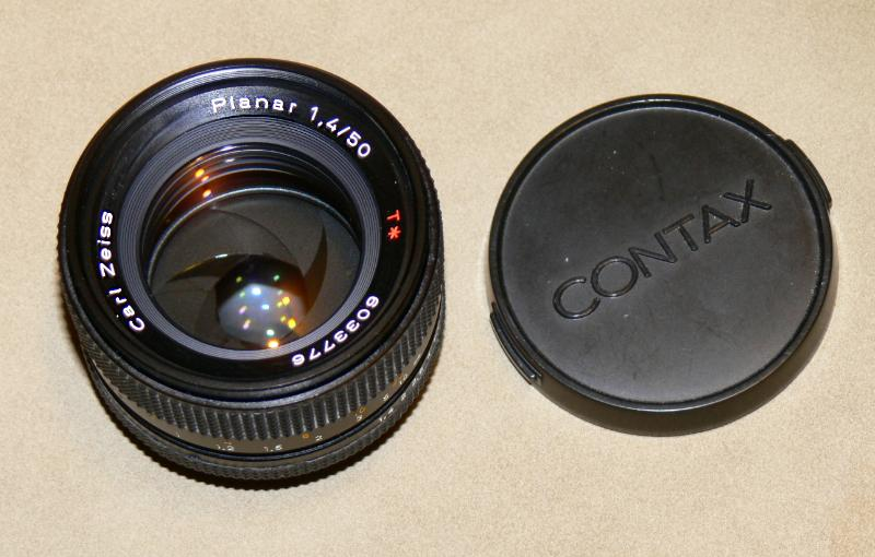 Carl Zeiss T* Planar 50mm F/1.4 lens for CONTAX SLR